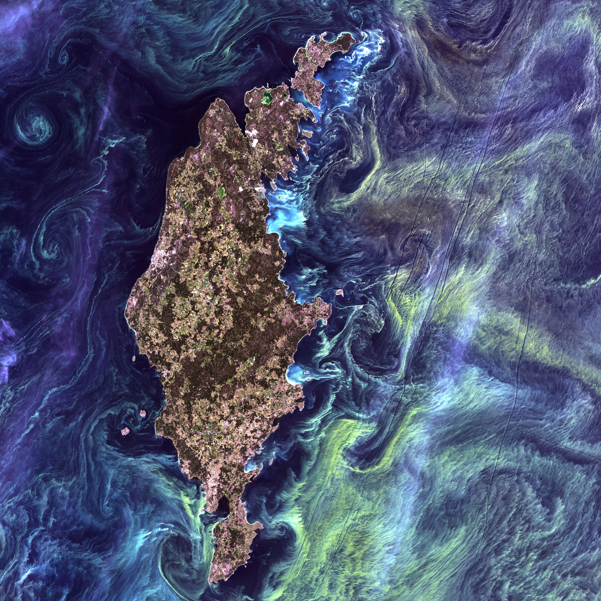 In the style of Van Gogh's painting "Starry Night," massive congregations of greenish phytoplankton swirl in the dark water around Gotland, a Swedish island in the Baltic Sea. Population explosions, or blooms, of phytoplankton, like the one shown here, occur when deep currents bring nutrients up to sunlit surface waters, fueling the growth and reproduction of these tiny plants.